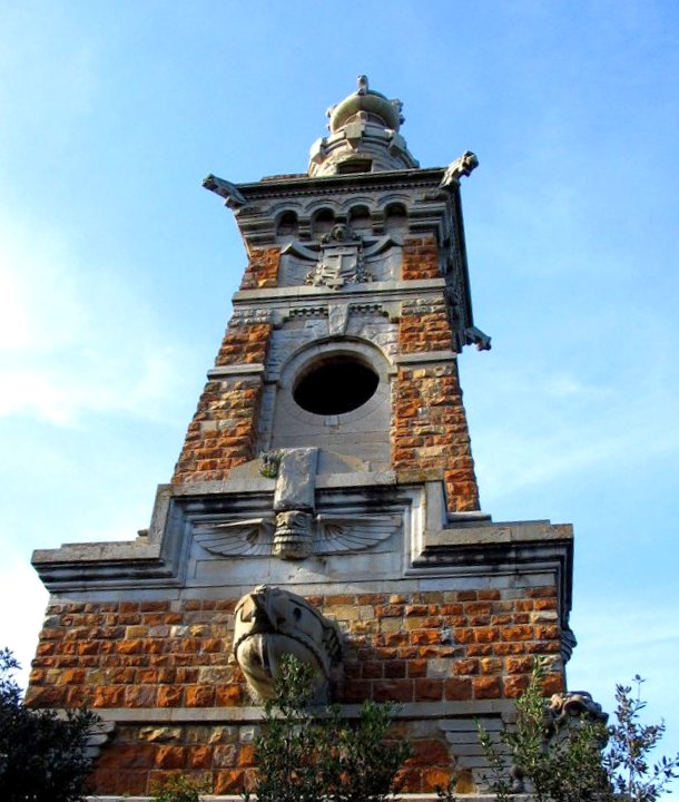 elba island